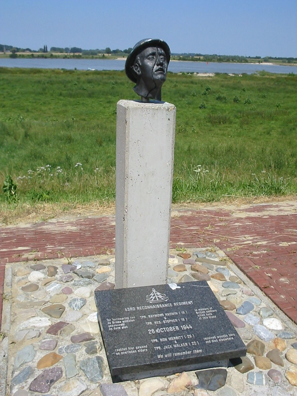 Heerewaarden (NL), Hadwin & Stopher Memorial